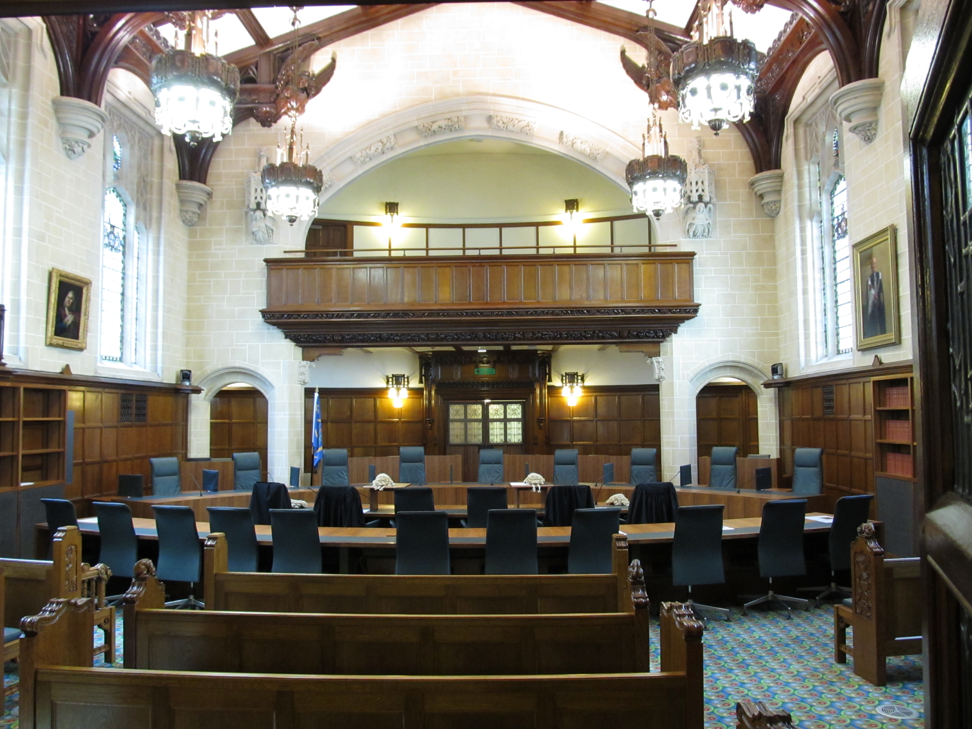 Court 1 of the Supreme Court of the United Kingdom at Middlesex Guildhall,[1] on a visitor day.